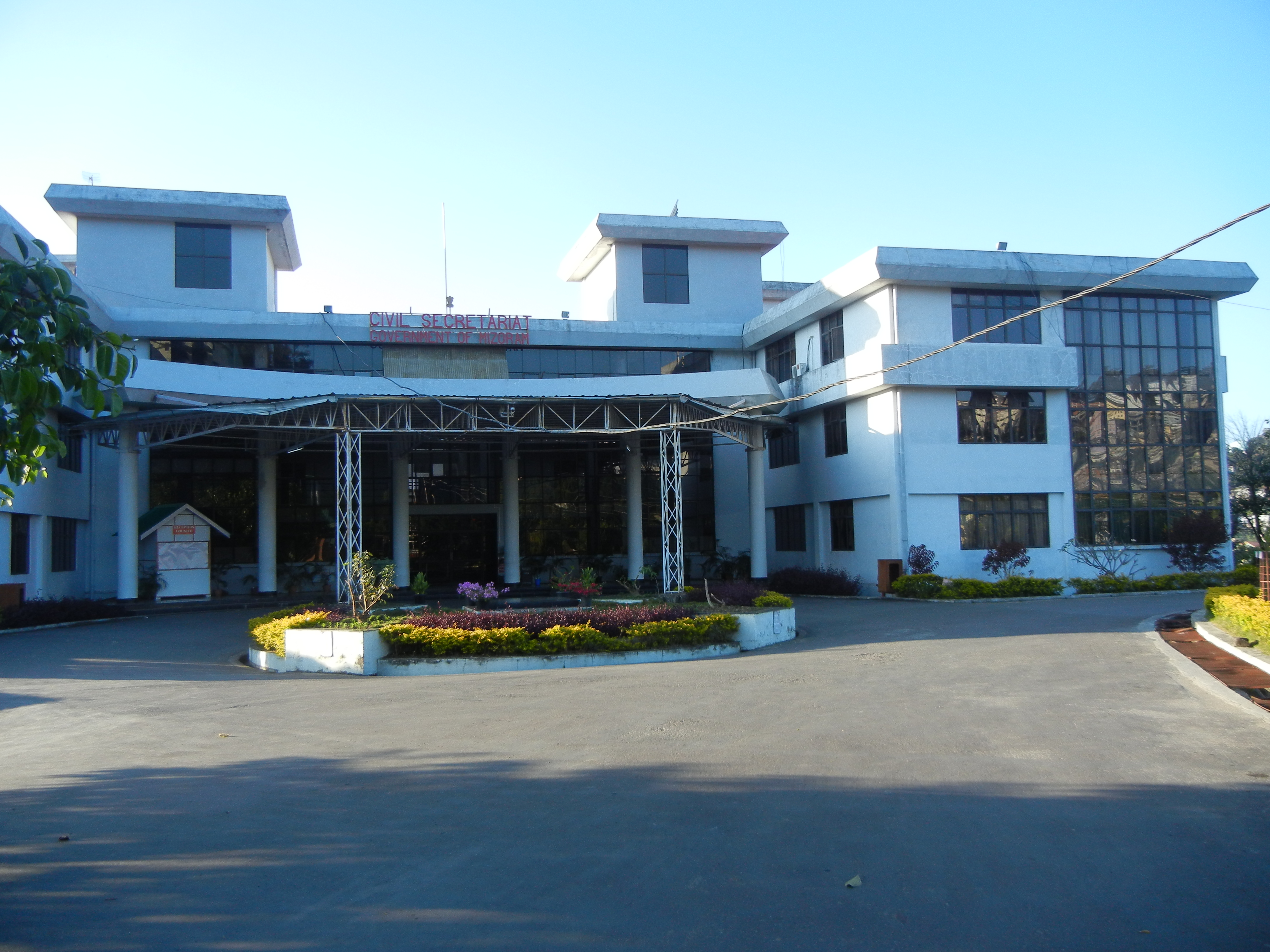 Mizoram Secreteriat